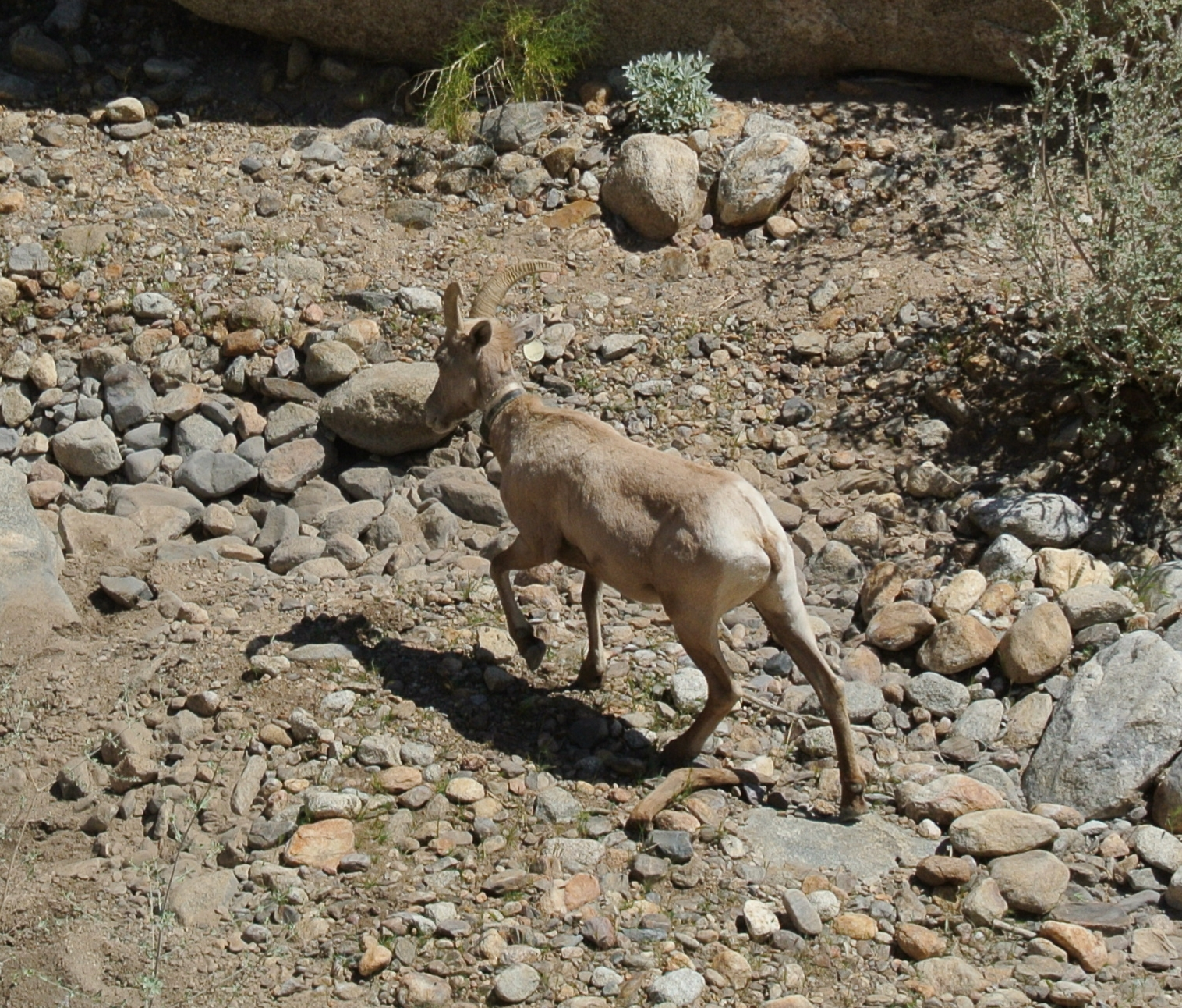 Desert bighorn sheep (probably a female) in a canyon of the Anza-Borrego Desert State Park, California.